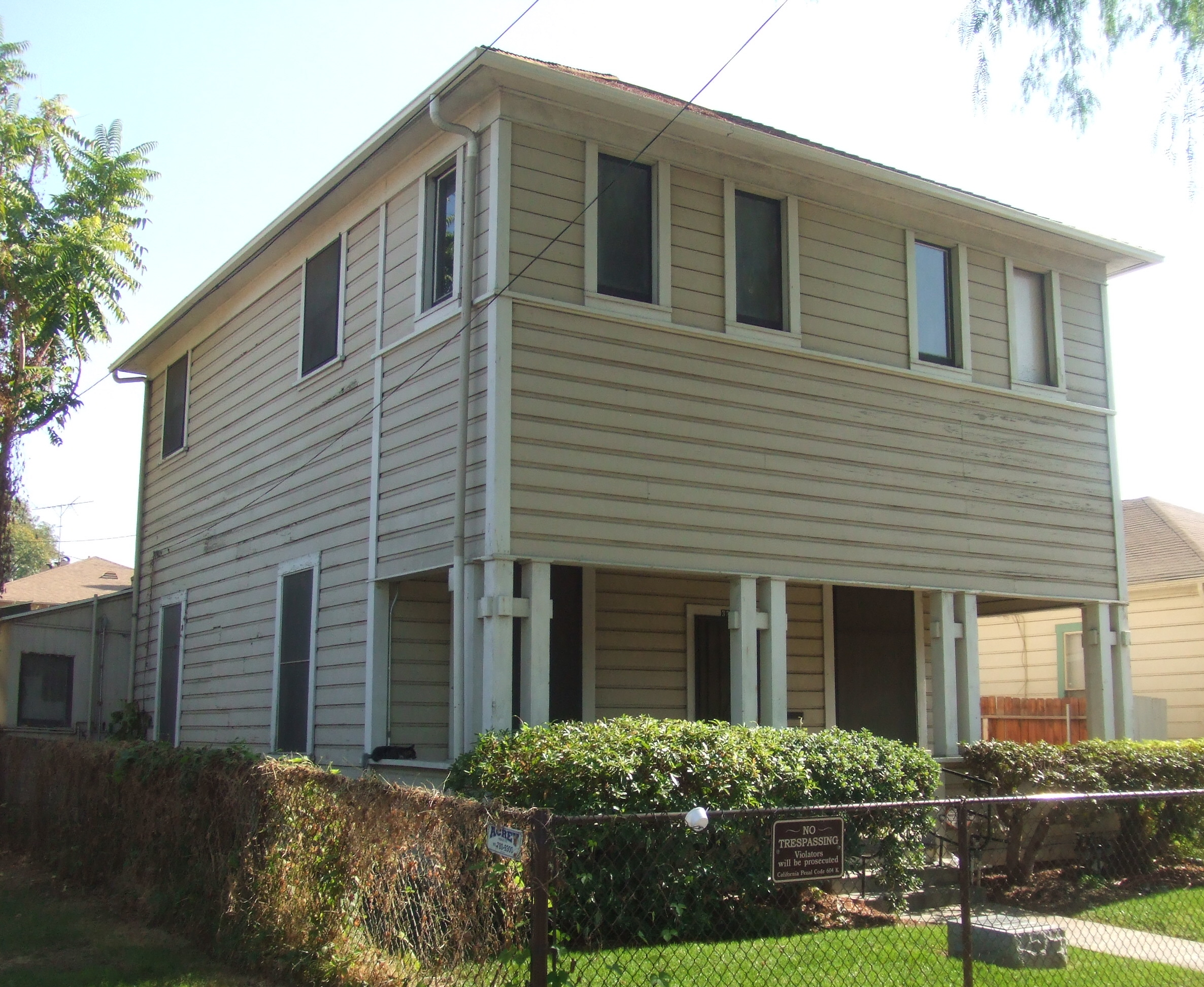 Harada House in Riverside, California. Riverside Cultural Heritage Board Landmank #23 and National Historic Landmark.